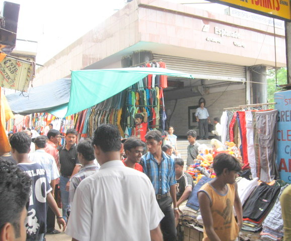 Hawkers' paradise outside Esplanade Metro Station Own photograph